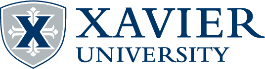 Logo of Xavier University. Originally uploaded as Xavier-U-cinci-logo.gif on 15 Jun 2006 by Bobak. This new version is in the more efficient PNG format.